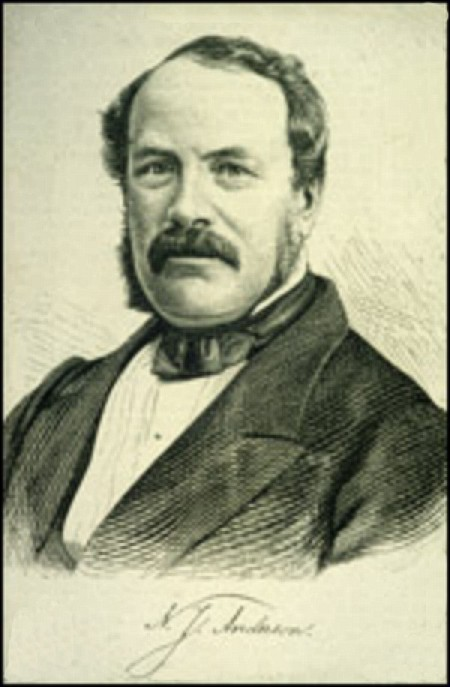 Portrait of Nils Johan Andersson (1821-1880), Swedish botanist